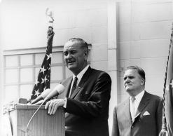 President Lyndon B. Johnson addresses space workers at Cape Kennedy, Florida, on September 15, 1964. NASA Administrator James E. Webb is in the background. (NASA photo 64-H-2365)